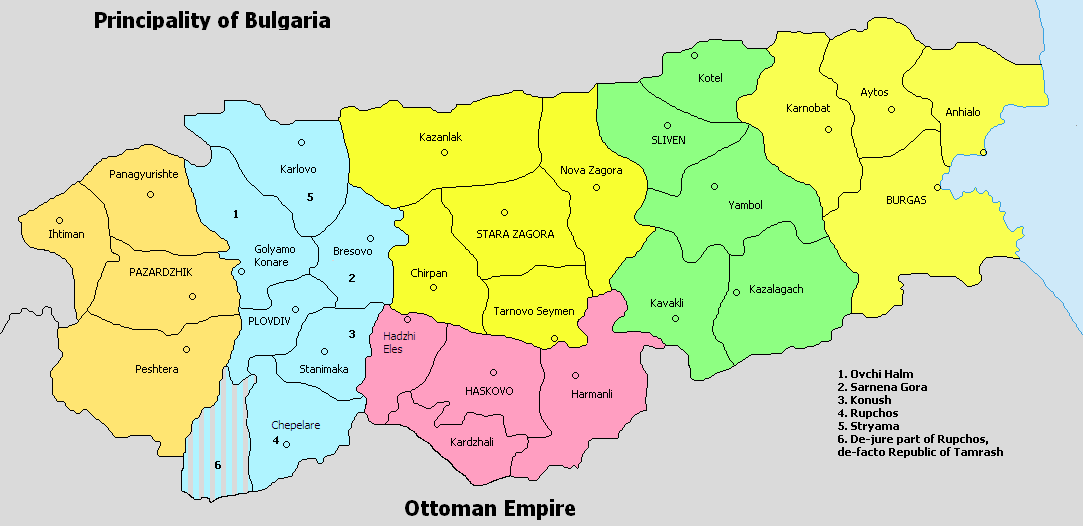 The districts and cantons of the autonomous province of Eastern Rumelia